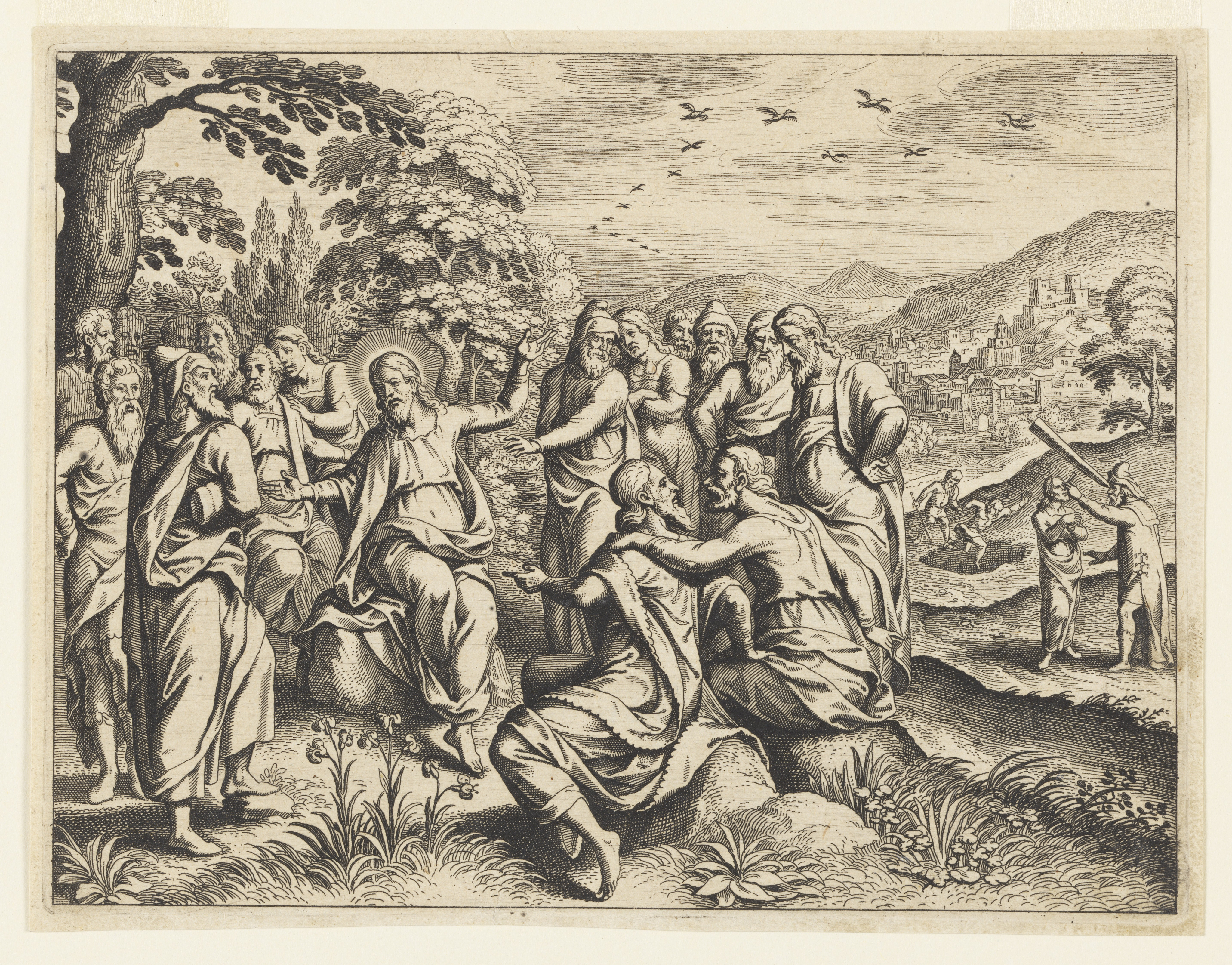 Scene depicting the figure of Jesus Christ sharing his moral teachings with others. Christ sits in the foreground at left upon a rock, a radiating halo surrounding his head, his arms raised in open gestures to those around him, and his gaze aimed at the figure to the left. He is surrounded by a crowd of men who listen to his teachings and discuss amongst themselves. Behind the group is a forest of leafy trees. To the right, indications of a valley with additional figures in conversation. A city on a hill in the background, with mountains in the distance. A flock of birds flies through the cloudy sky at upper right. Composition contained within rectangular framing line.